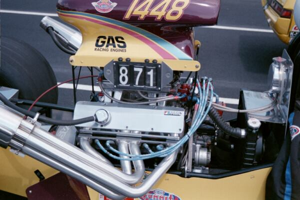 American Motors Corporation (AMC) engine powered rail drag car at the annual Cecil County (Maryland) Dragway, at the AMC drag day, August 2001. Awesome Muscle Cars! This dragstrip is located at: 1916 Theodore Road, Rising Sun, MD 21911.